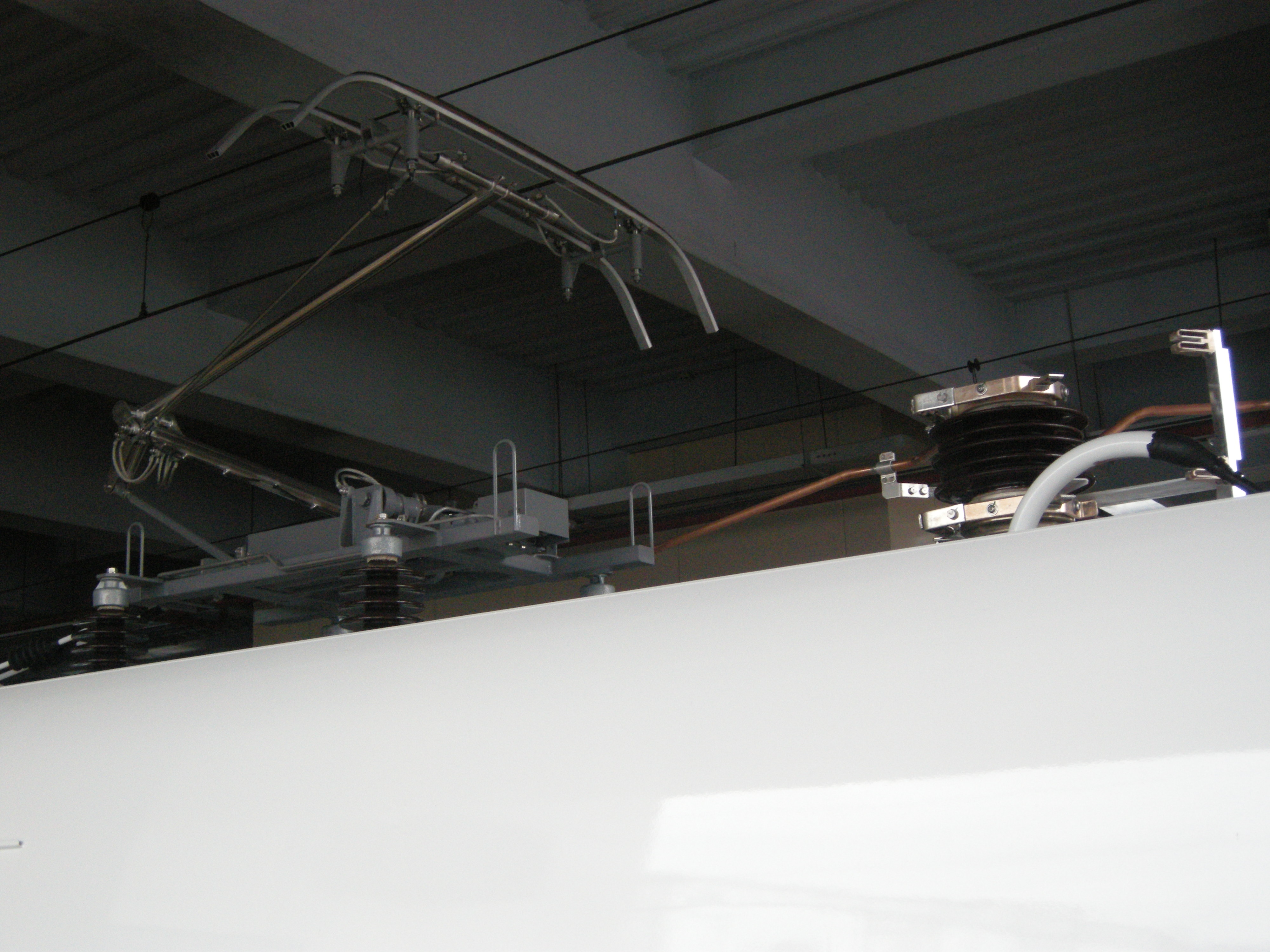 Pantograph on the Taiwan Railway TEMU2000 series train.